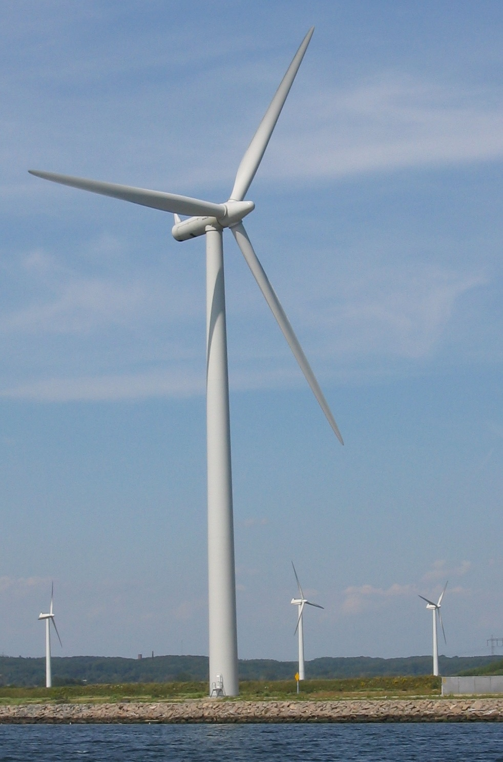 Taken by Neutronic